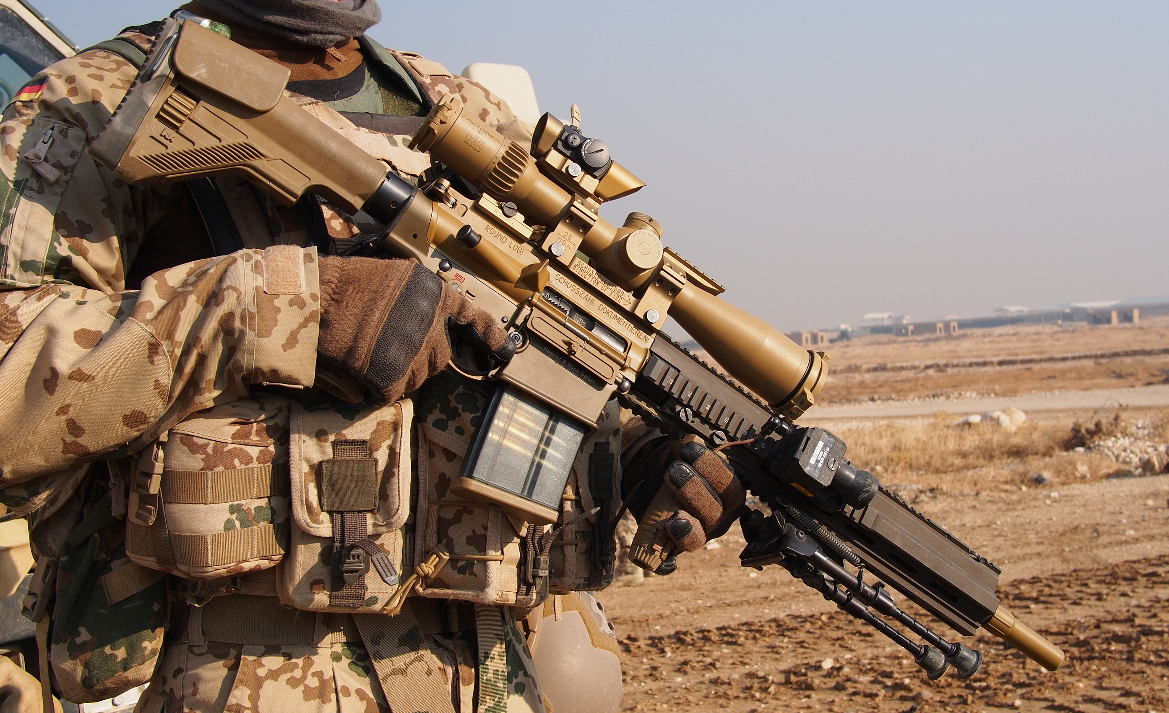 MAZAR-E SHARIF/AFGHANISTAN 23dec2013 - German soldier with marksman rifle G28 manufactured by Heckler&Koch, the Bundeswehr version of the HK MR308 Foto Thomas Wiegold